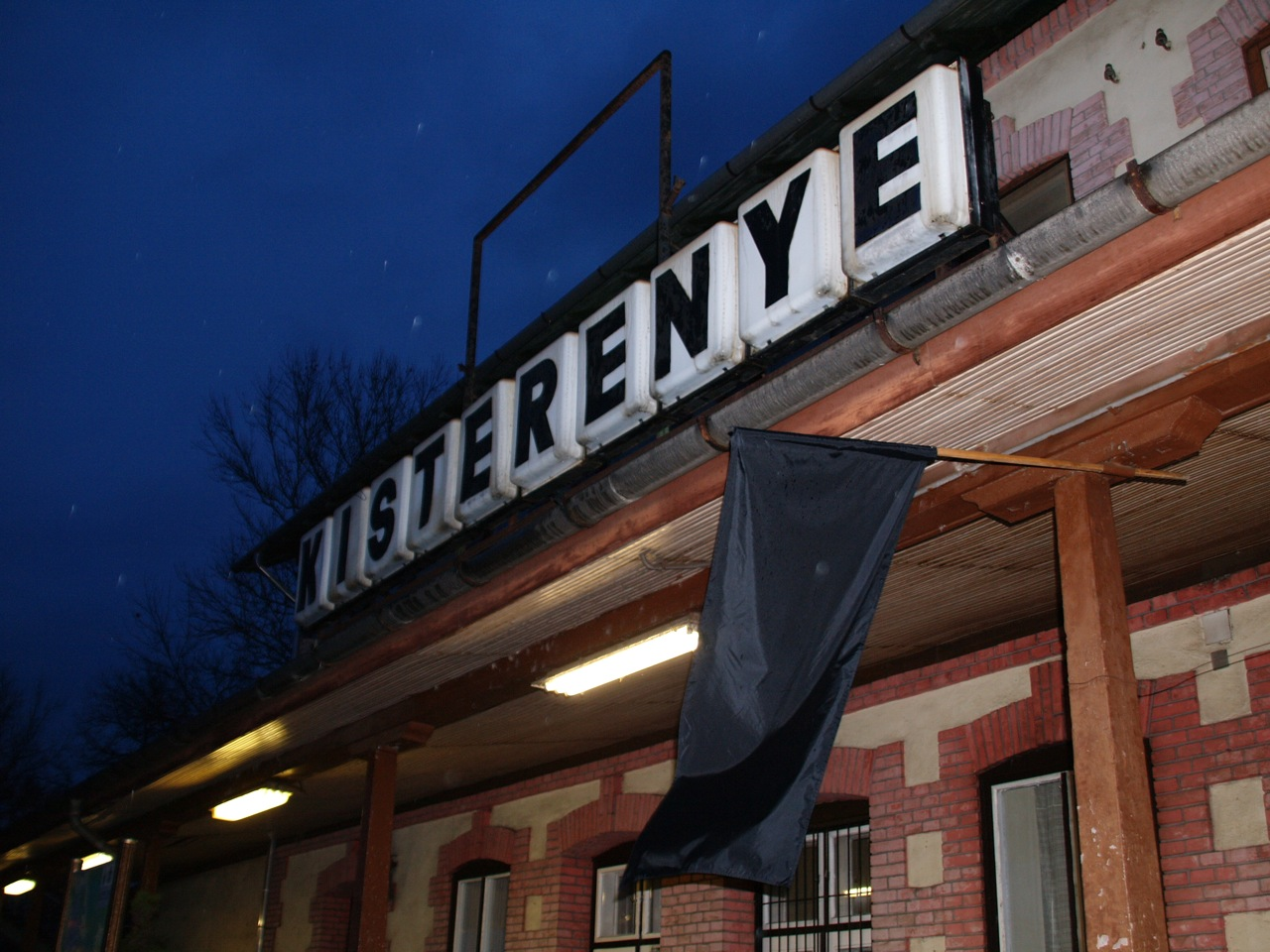 Flag of the mourn on the Kisterenye railway station, as farewel from the "temporarily disolved" Kisterenye–Kál-Kápolna railway line